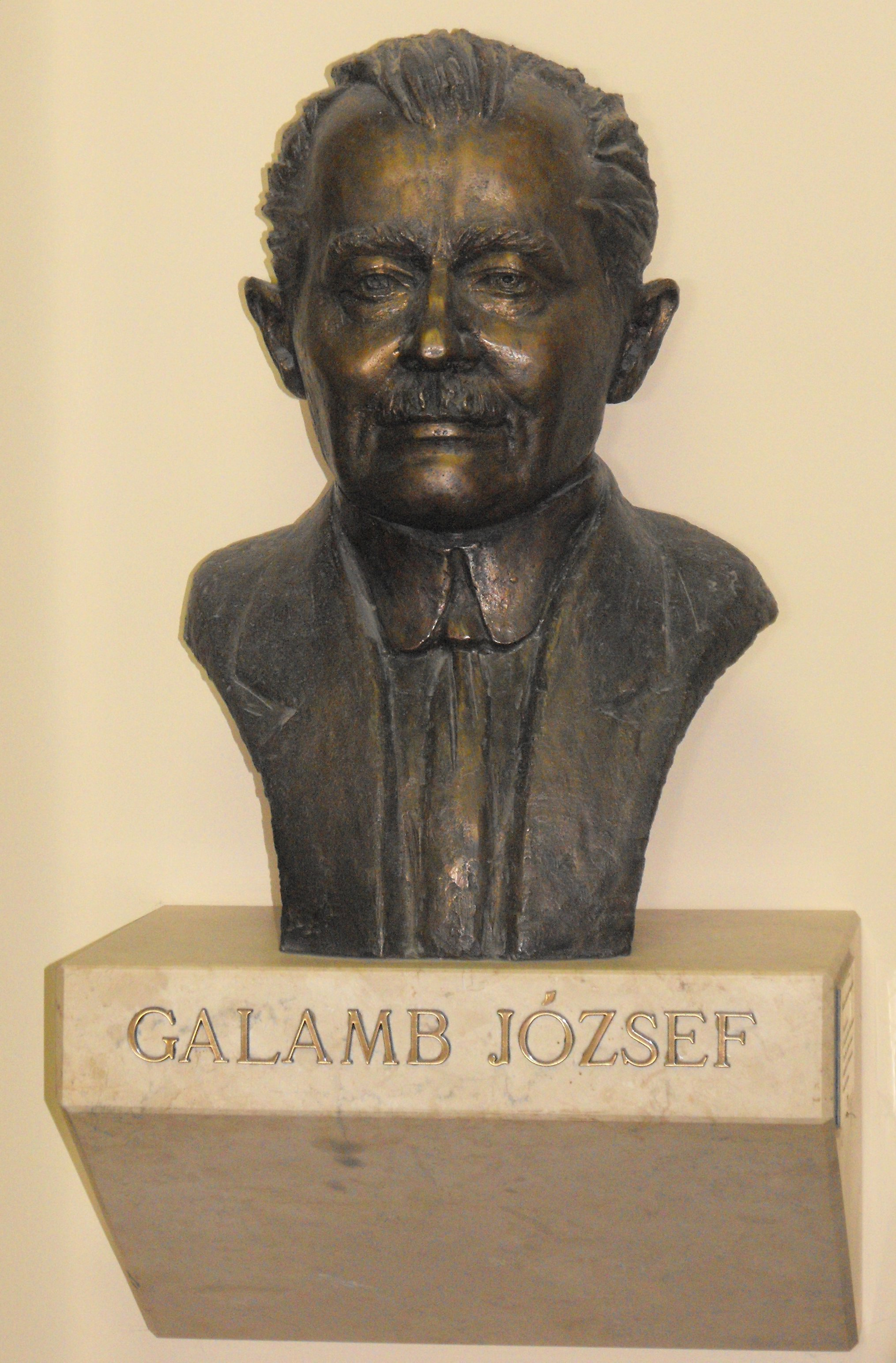 Statue of Joseph Galamb in the secondary school named after him, in Makó, Hungary.